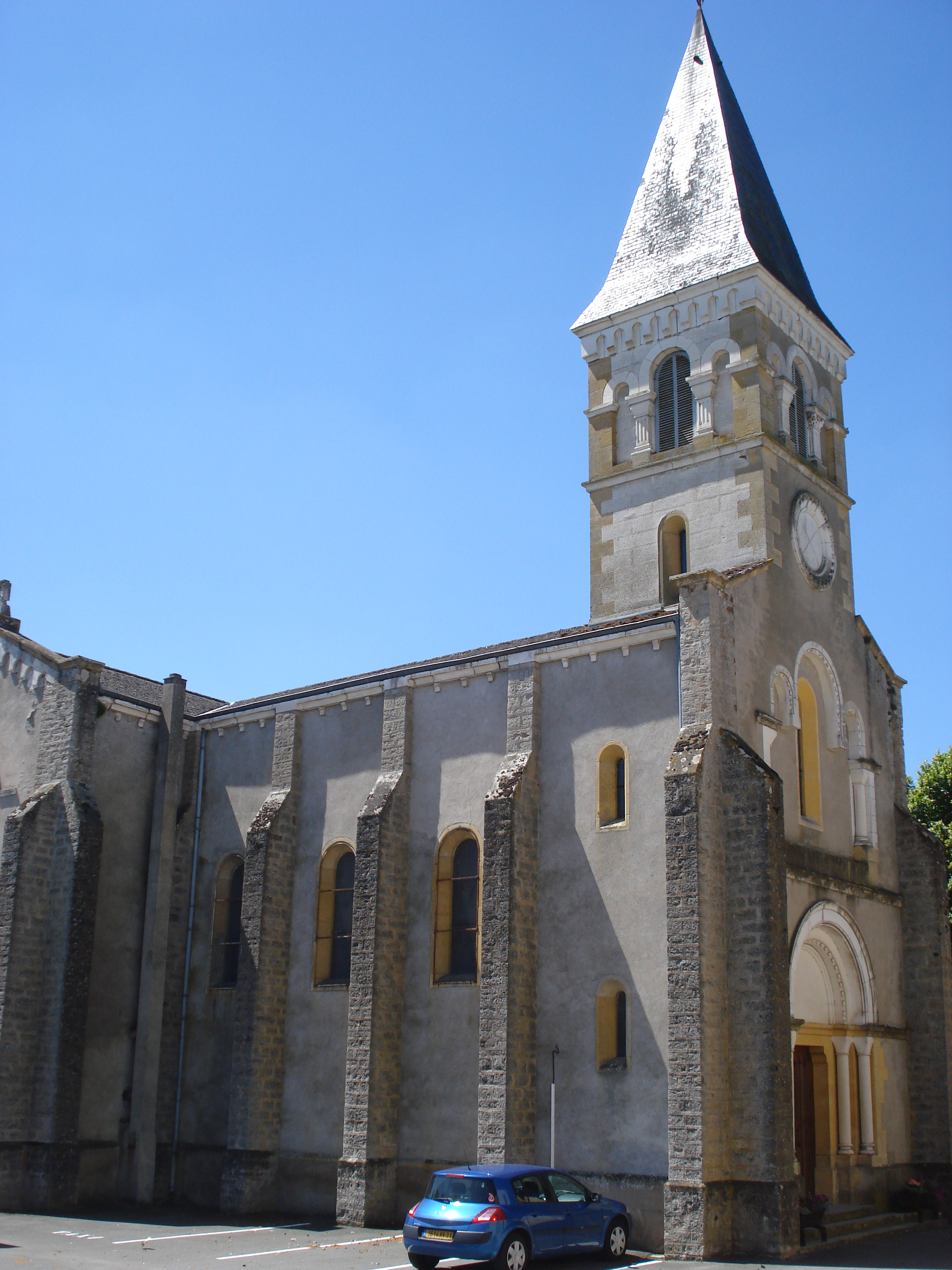 Church of Vendenesse-sur-Arroux, Saône-et-Loire, Fr